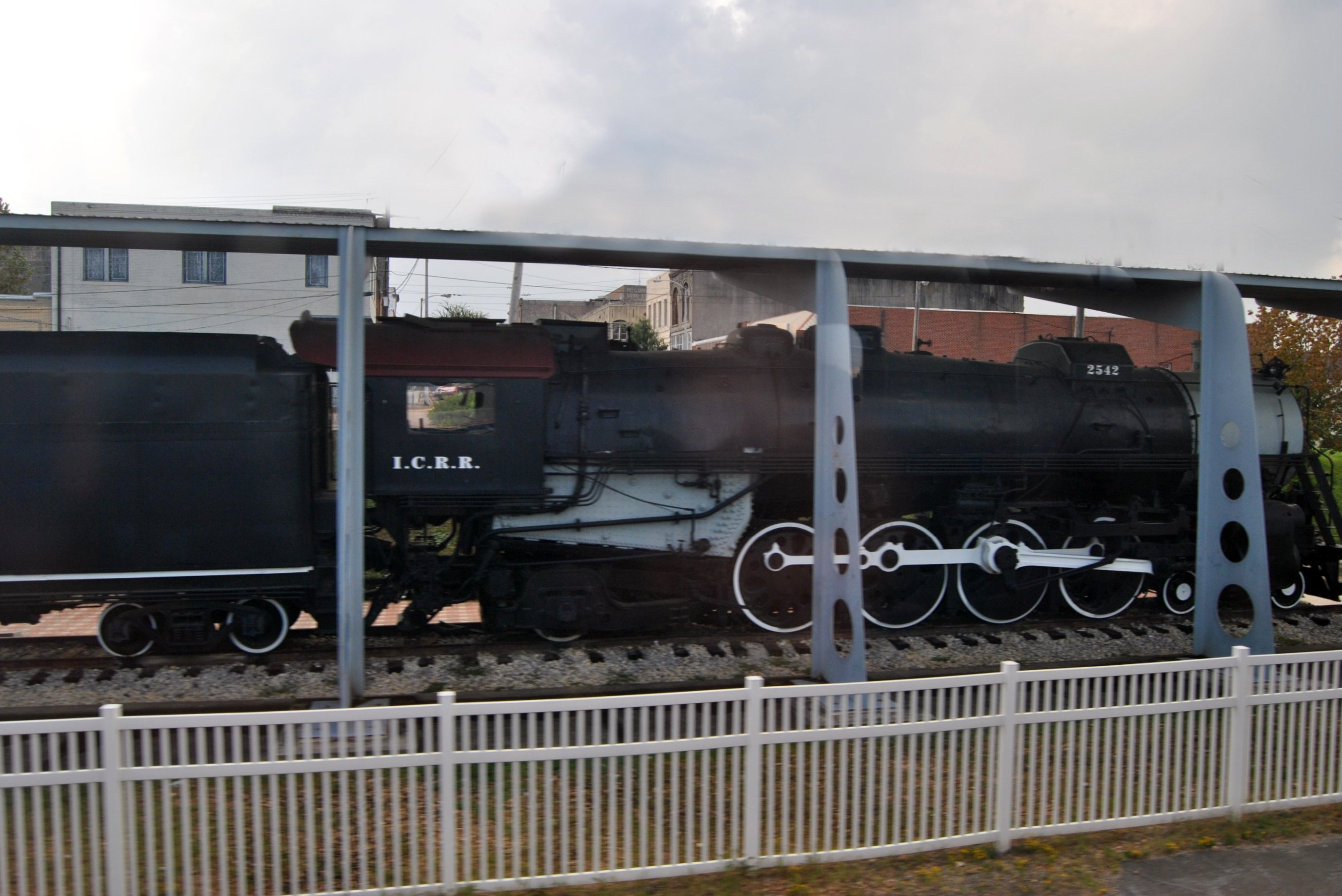 With speeds topping out around 85 MPH, Locomotive #2542 - a Mountain type locomotive - served as a work horse for Illinois Central Railroad in both passenger and freight service during the middle years of the 20th century. #2542 is one of only two surviving 2500 class Paducah Rebuilds (named for the square "Paducah" sand dome atop the boiler) with a sister locomotive, #2500, residing in Centralia, Illinois. These were the largest steam engines in the ICRR fleet. The wheel arrangement for this locomotive was reconfigured in 1942 from a 2-10-2 to a 4-8-2 arrangement; beginning her life as locomotive #2906 in Lima, Ohio Locomotive Works in 1921. Owned by the City of McComb City, Locomotive #2542 was acquired in 1962 largely through the efforts of the late Oliver Emmerich (then editor of the McComb Enterprise Journal), the McComb Junior Auxiliary and other local civic groups. Her home was in Edgewood Park until relocated to this spot on June 21, 2000. Photo taken from The Northbound Amtrak City of New Orleans Locomotive Information From. [1]